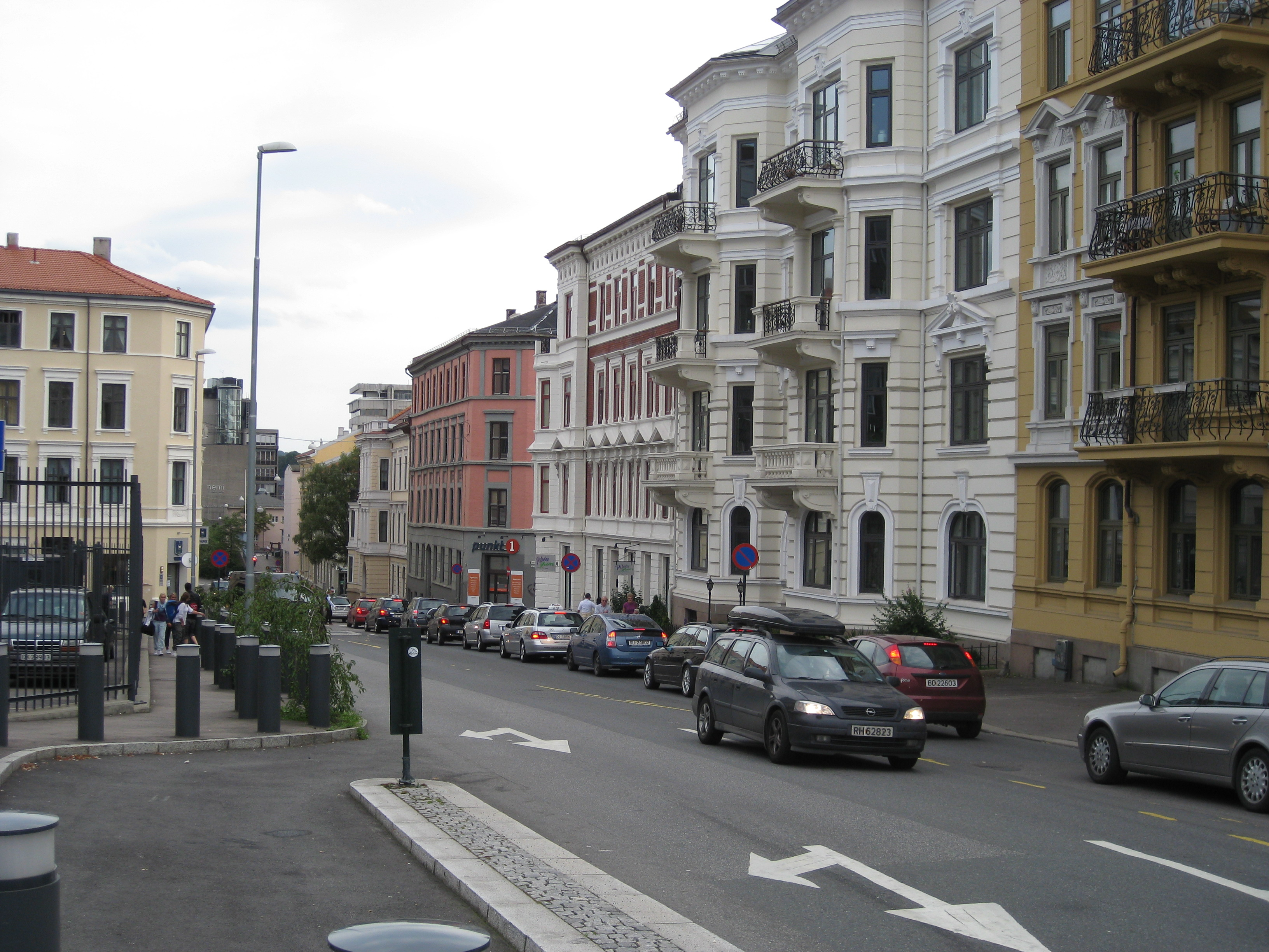 Løkkeveien in Ruseløkka, Oslo, Norway